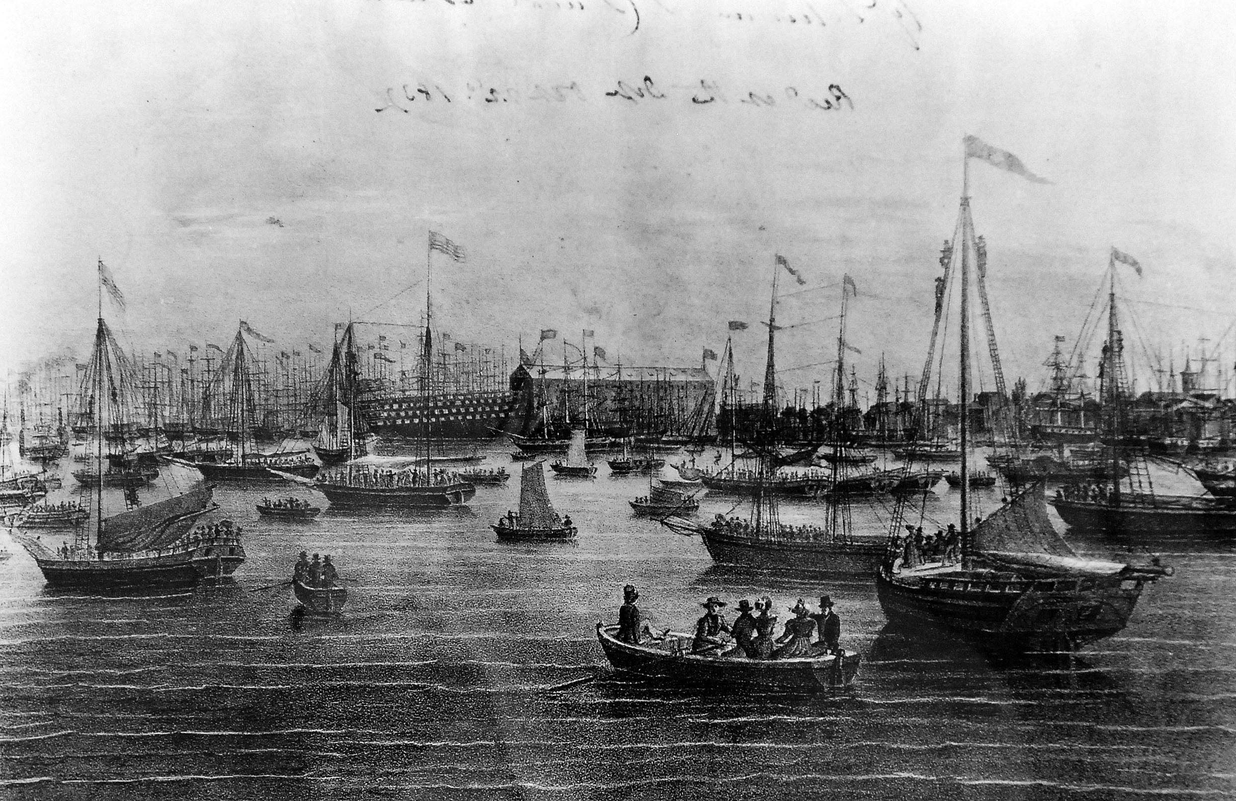 LC-USZ62-1346: View of the launch of the U.S. Navy ship of the line, USS Pennsylvania, at the Philadelphia Navy Yard, Philadelphia, July 18, 1837. Lithography by Lehman and Duval, 1837. Courtesy of the Library of Congress. (5/8/2015).